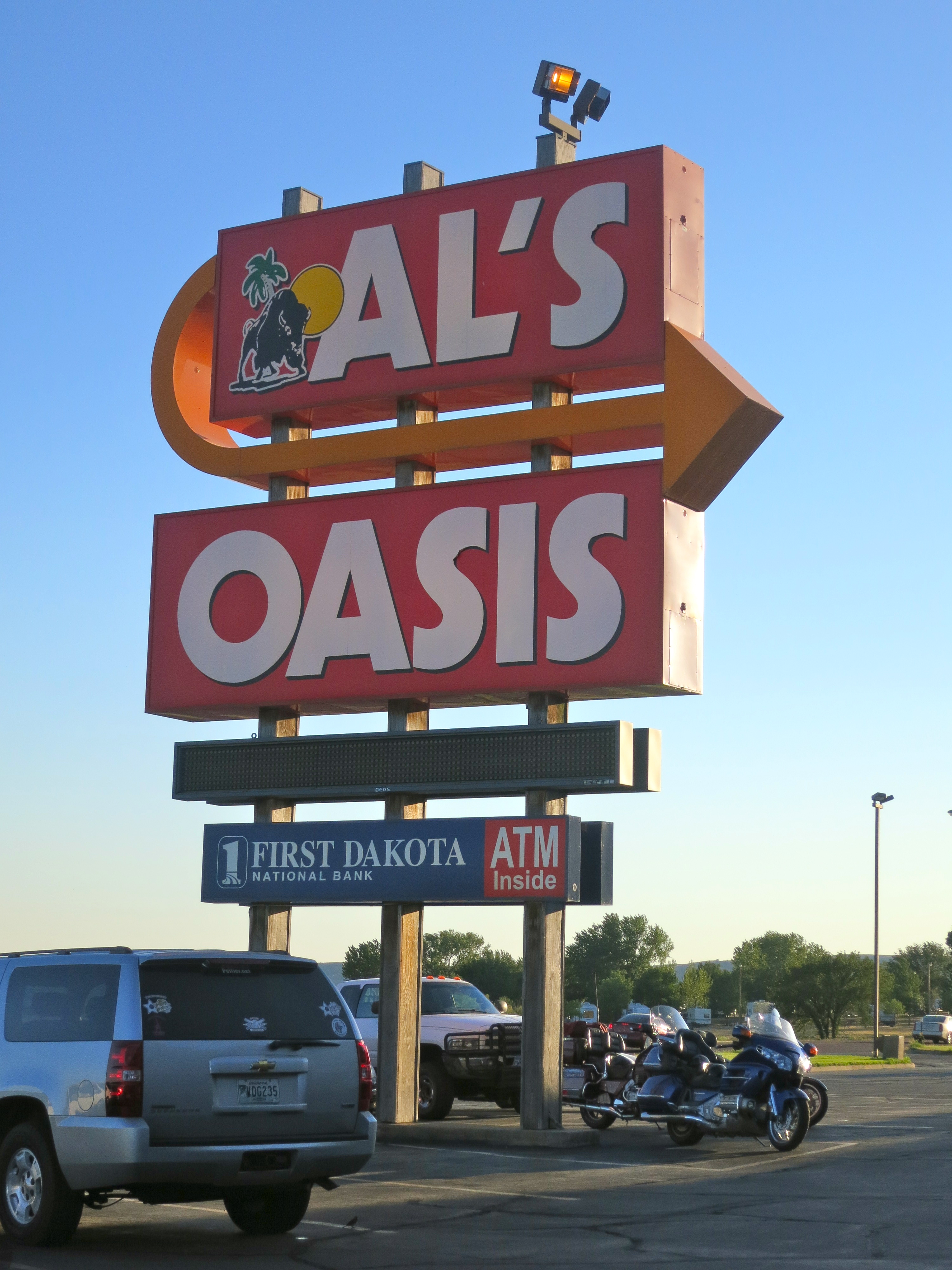 Current stopping in Oacoma along Interstate 90